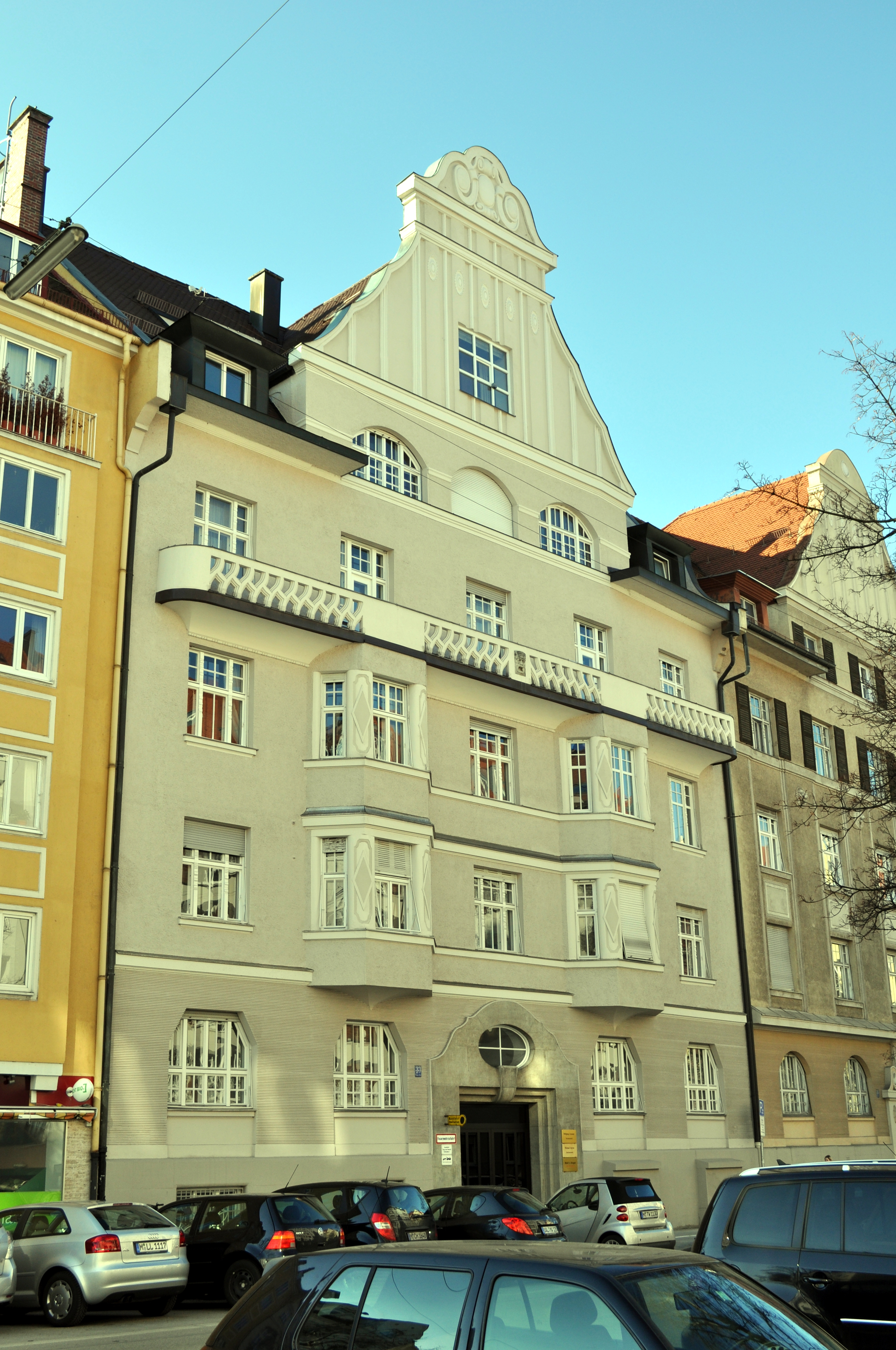 Museum Witt, Tengstraße 33, Munich, Germany